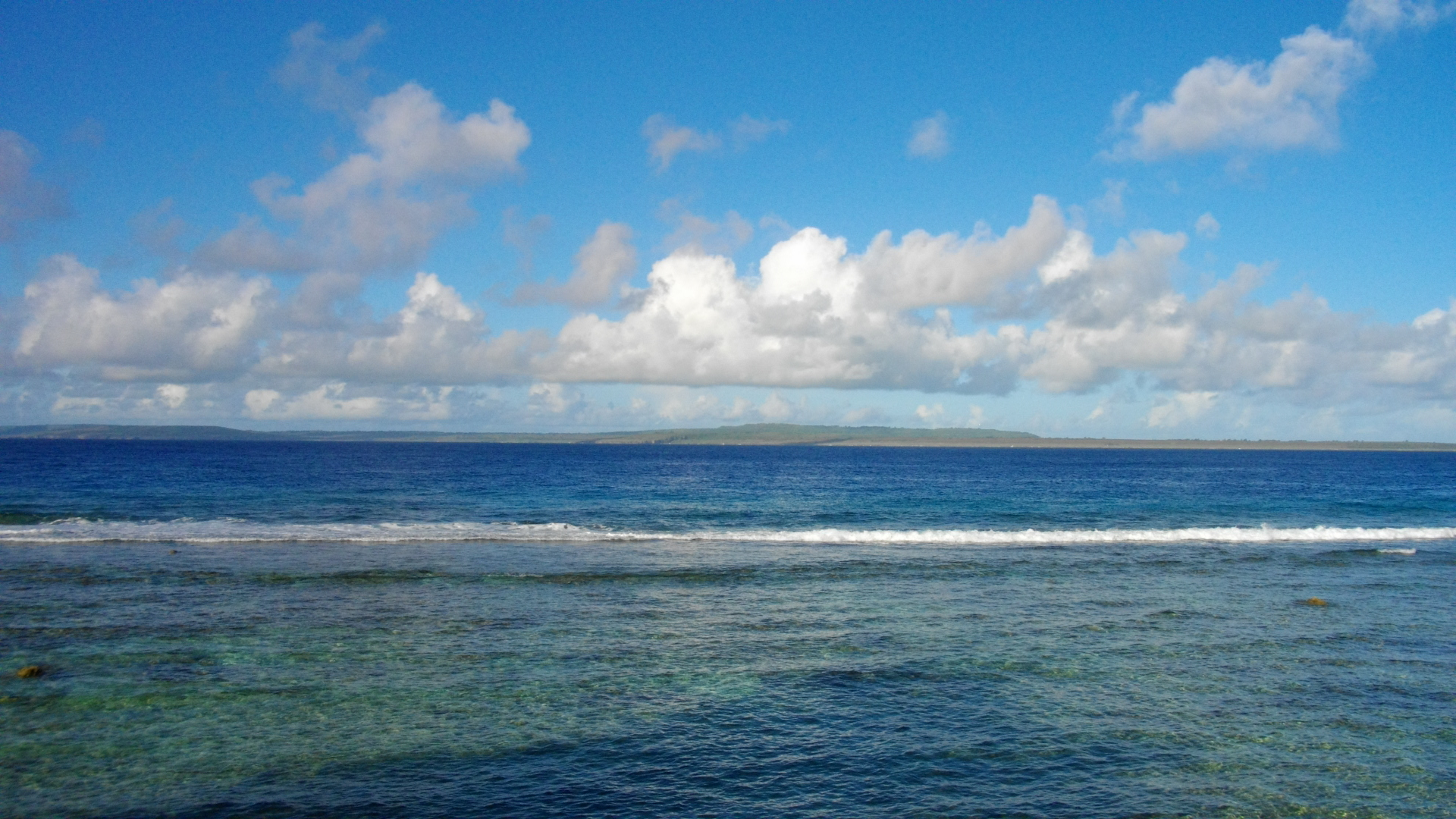 View of Tinian